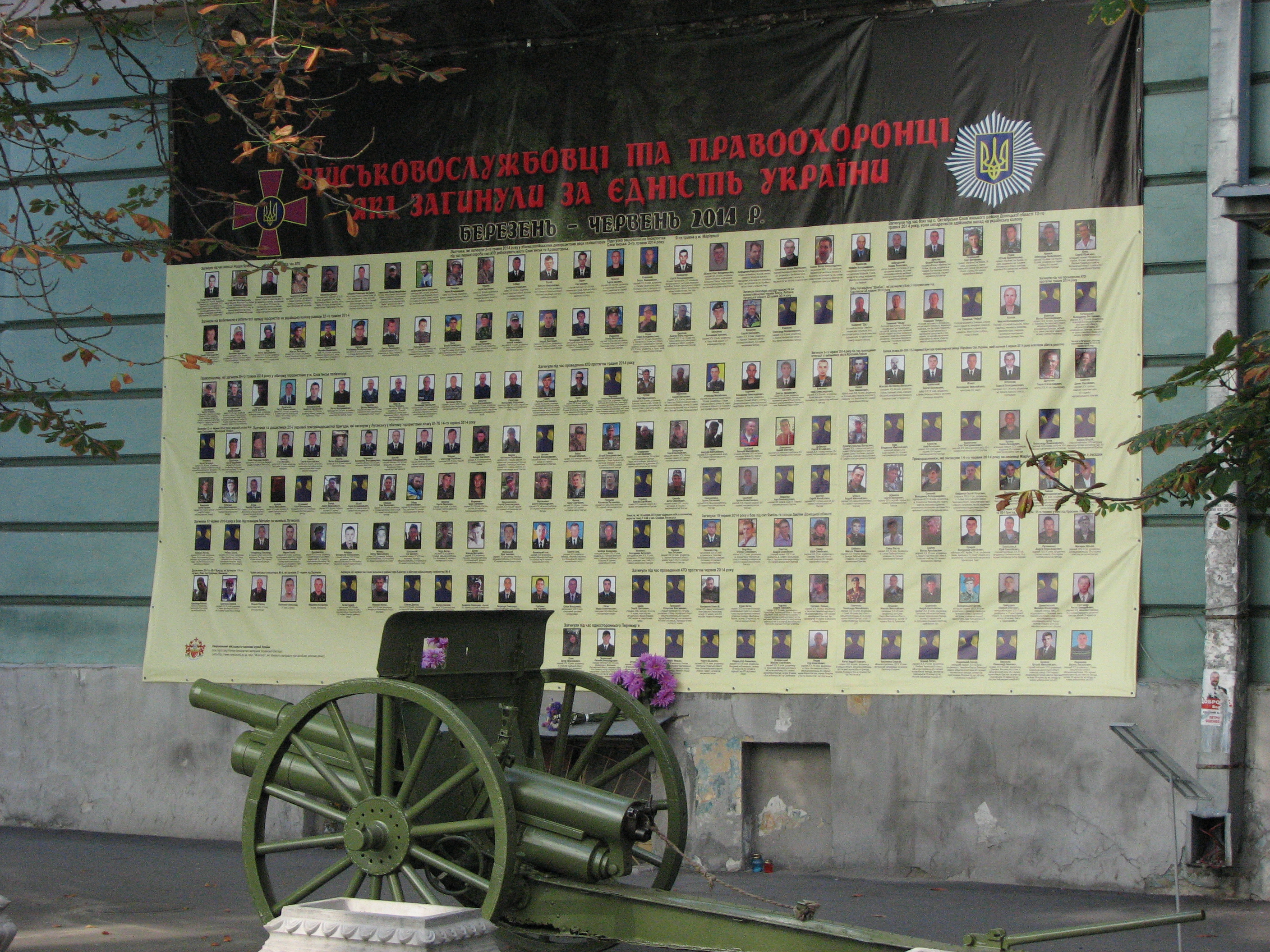 Світлини загиблих силовиків біля входу в Національний військово-історичний музей України